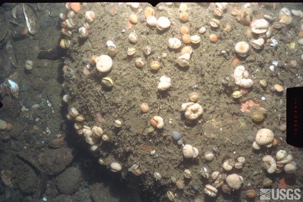 Photo of boulder on sea floor covered with brachiopods.